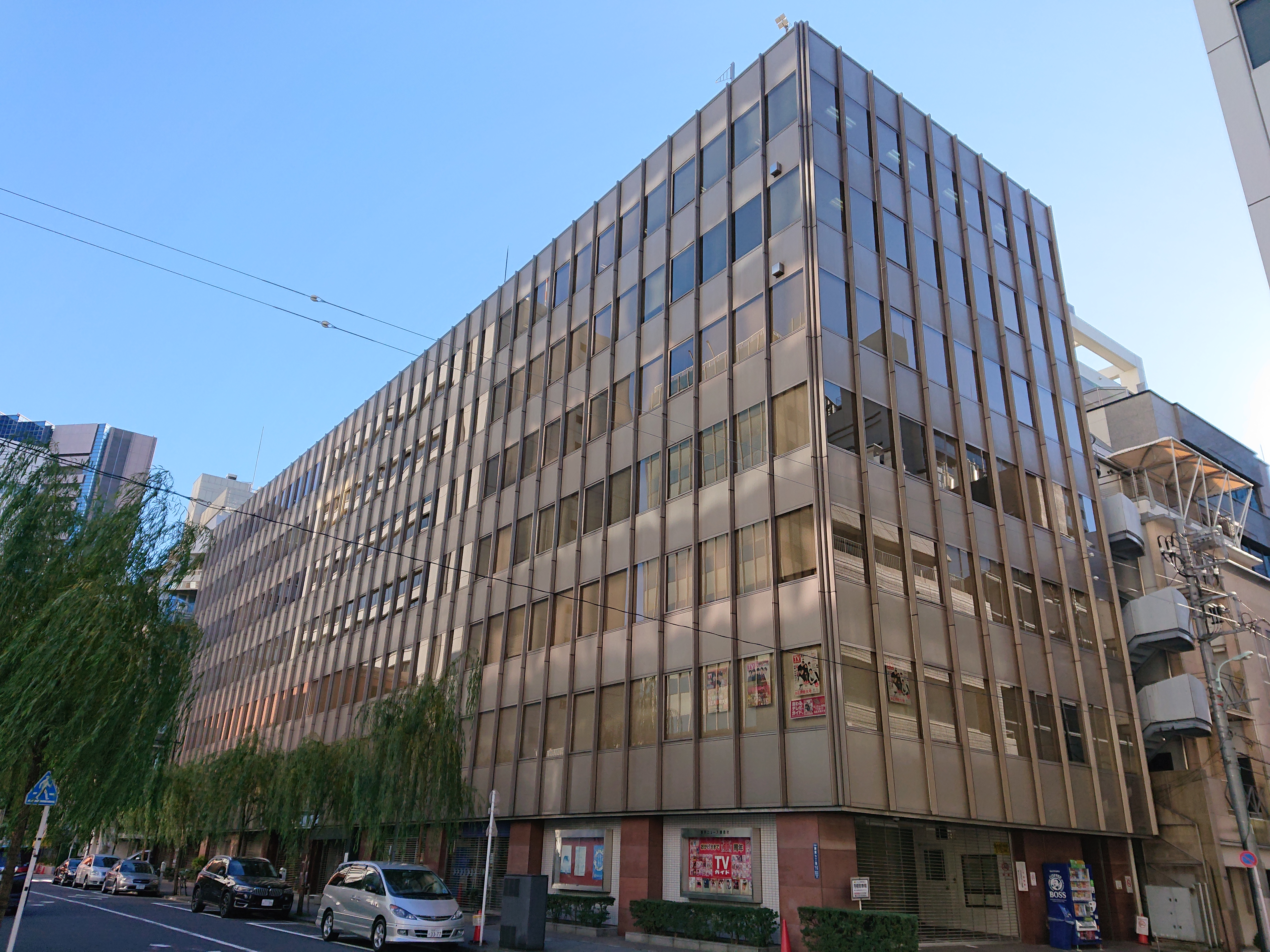 Nittetsu Kobiki Building (日鐵木挽ビル), located at 7-16-3 Ginza, Chuo, Tokyo, Japan